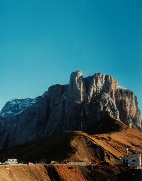 Passo Sella (Dolomites), view of the pass, Sella Group with Sella Towers behind (seen in eastern direction)